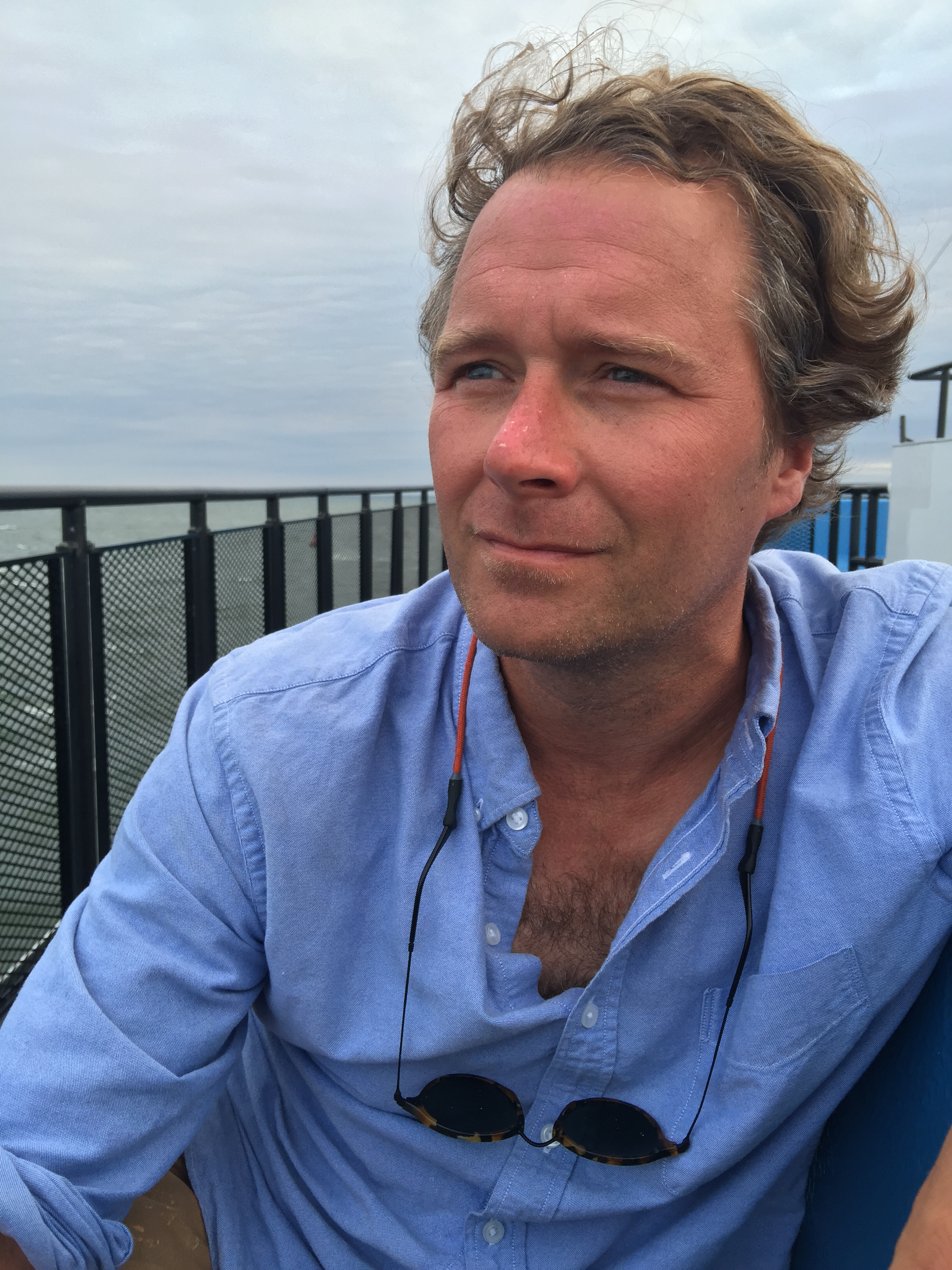 Me on the ferry